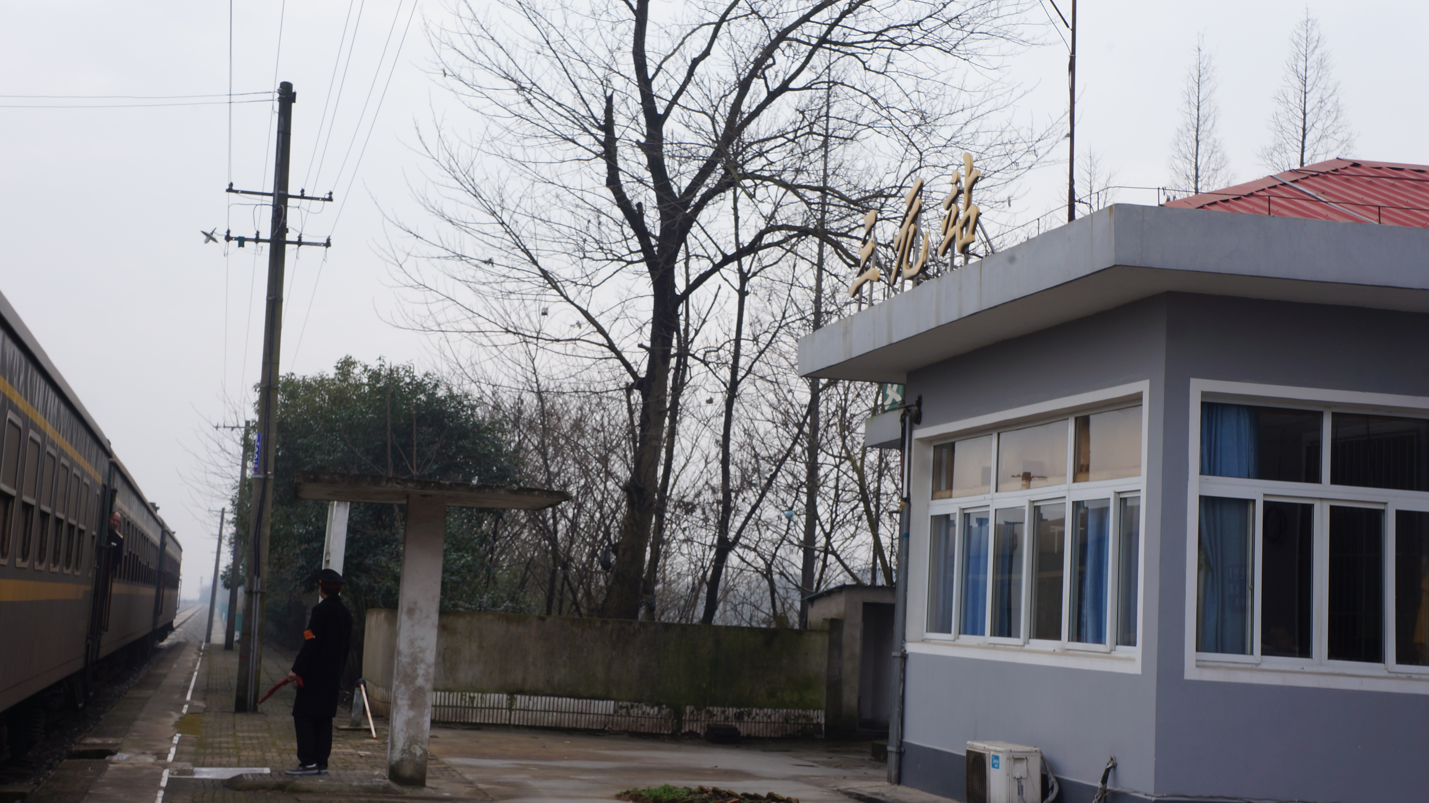 201601, Sanyuan Railway Station